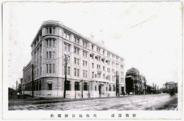 Japanese postcard of the newly built Osaka Mainichi Newspaper building